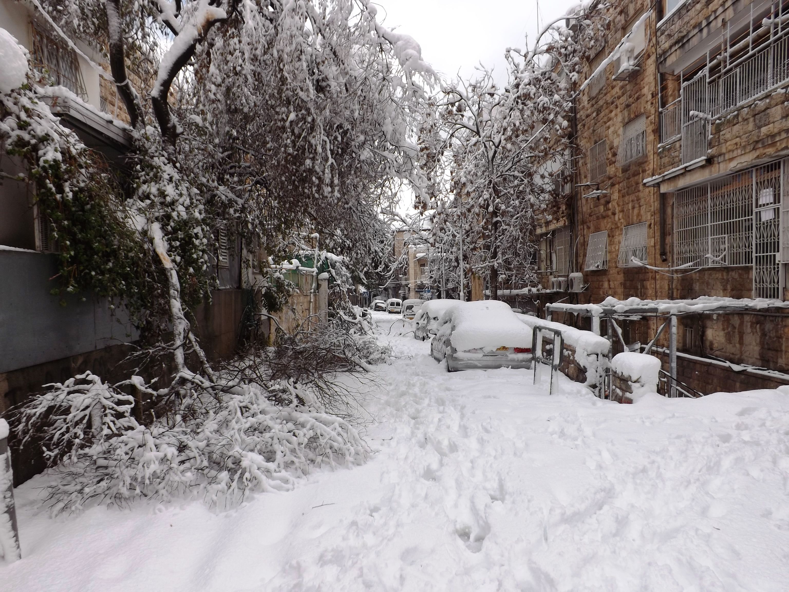 Yitzhak Prag street in Jerusalem, after the December 2013 snowstorm